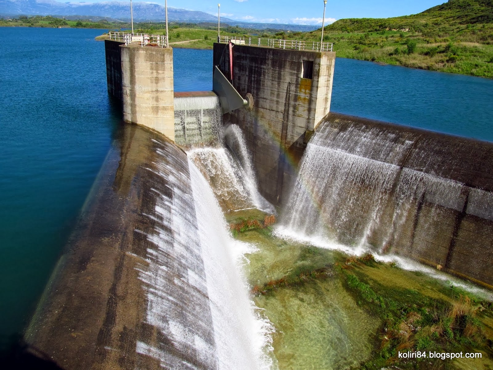 Pineios Dam-Ileia-Greece